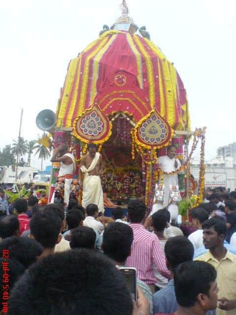 ratha yatra in bangalore